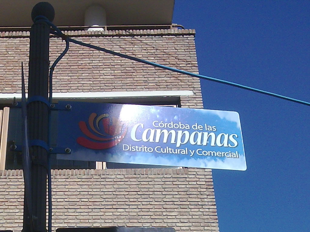 Sign on the corner of Independencia st. and Entre Ríos pedestrian st. Cordoba, Argentina.